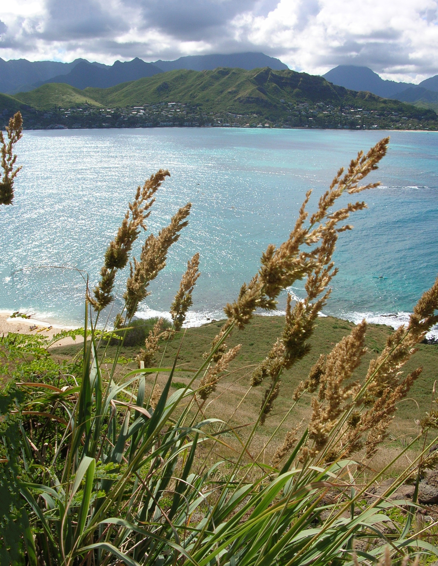 Eragrostis variabilis (habit). Location: Oahu, Mokulua North